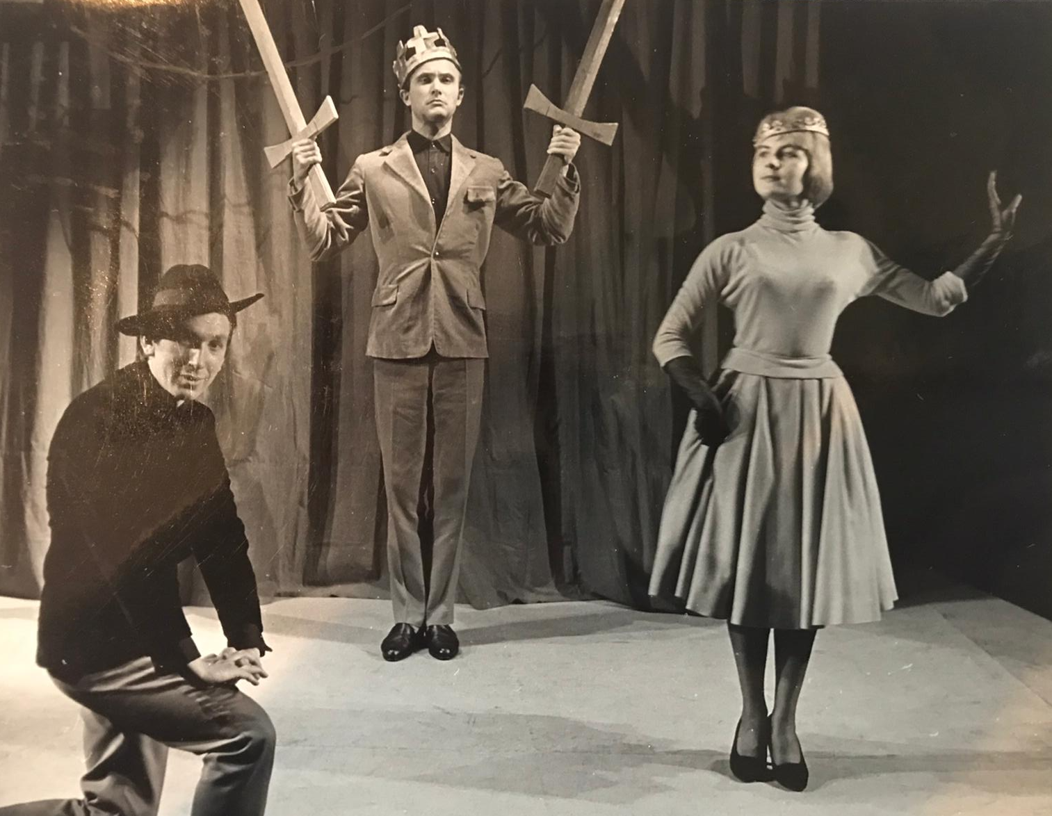 Zbigniew Poprawski on the stage in Teatr Rapsodyczny